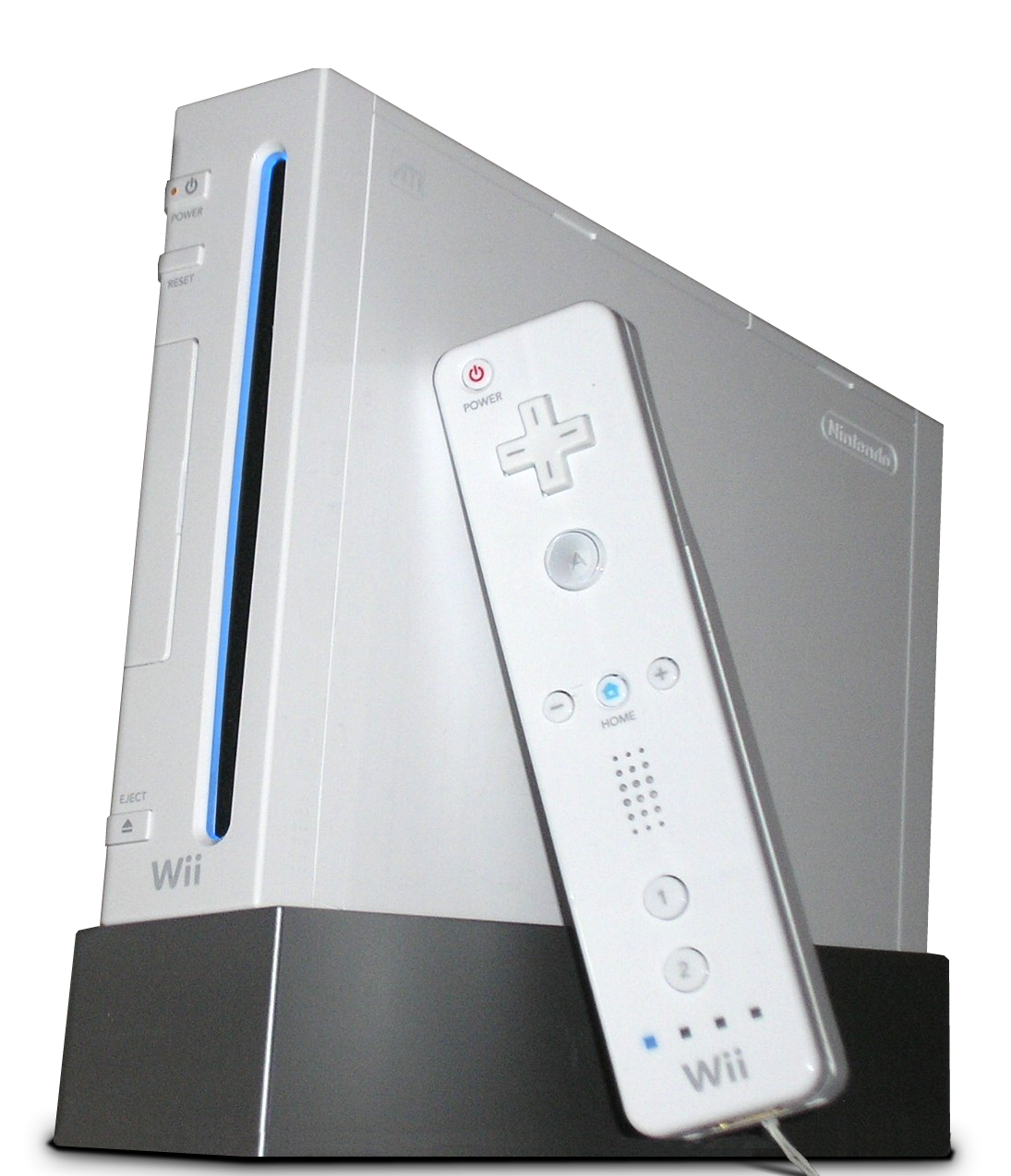 Wii with Wiimote (transparent background).